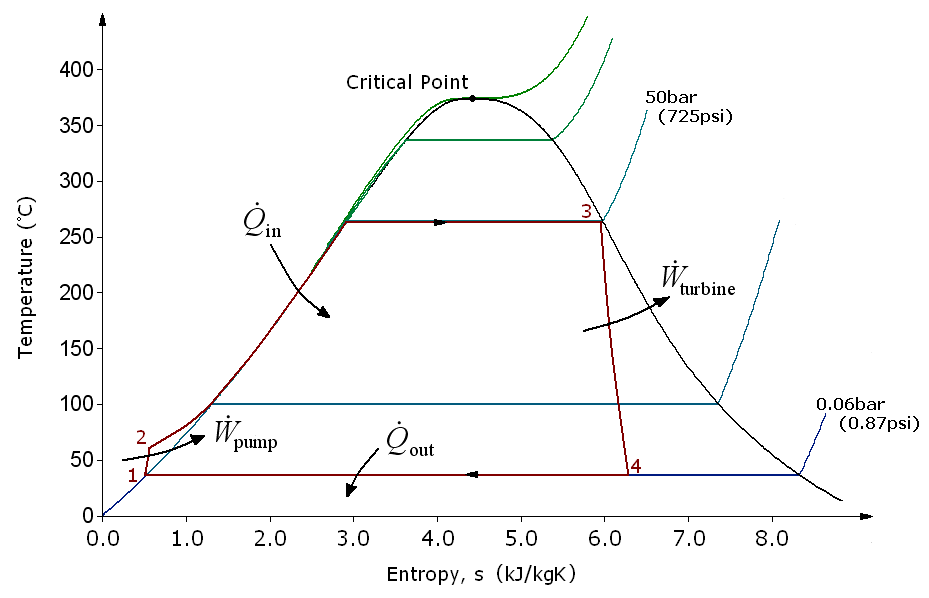 Ts (Temperature vs. specifific entropy) diagram of a basic Rankine cycle using water/steam in SI units. Data derived from IAPWS IF-97 using freeware openoffice-calc macros from Decided against using Kelvin for temperature scale as many people are unfamiliar with it; used °C instead. Isobars are at pressures 0.06bar, 1.01325bar (1atm), 50bar, 150bar and 221bar. Temperature rise associated with pump is heavily exaggerated for clarity and cycle operates between pressures of 50bar and 0.06bar. States are numbered using the convention I've always been familiar with. Easiest to think of the cycle starting at the pump and so input to pump is state 1.